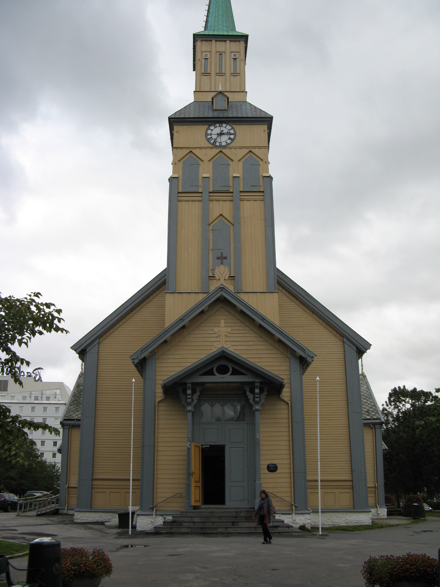 Church in Tromsö town